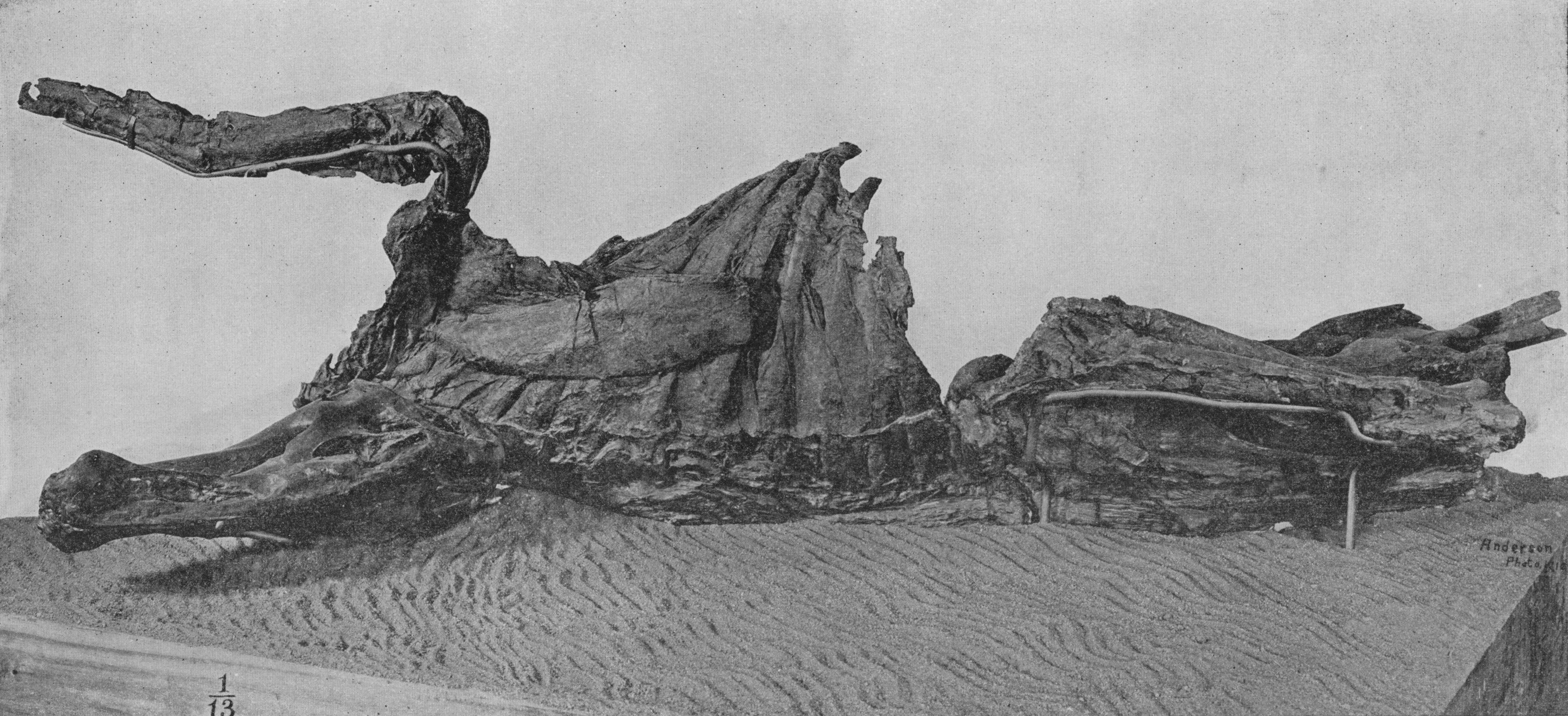 View of the right side of an Edmontosaurus annectens mummy.